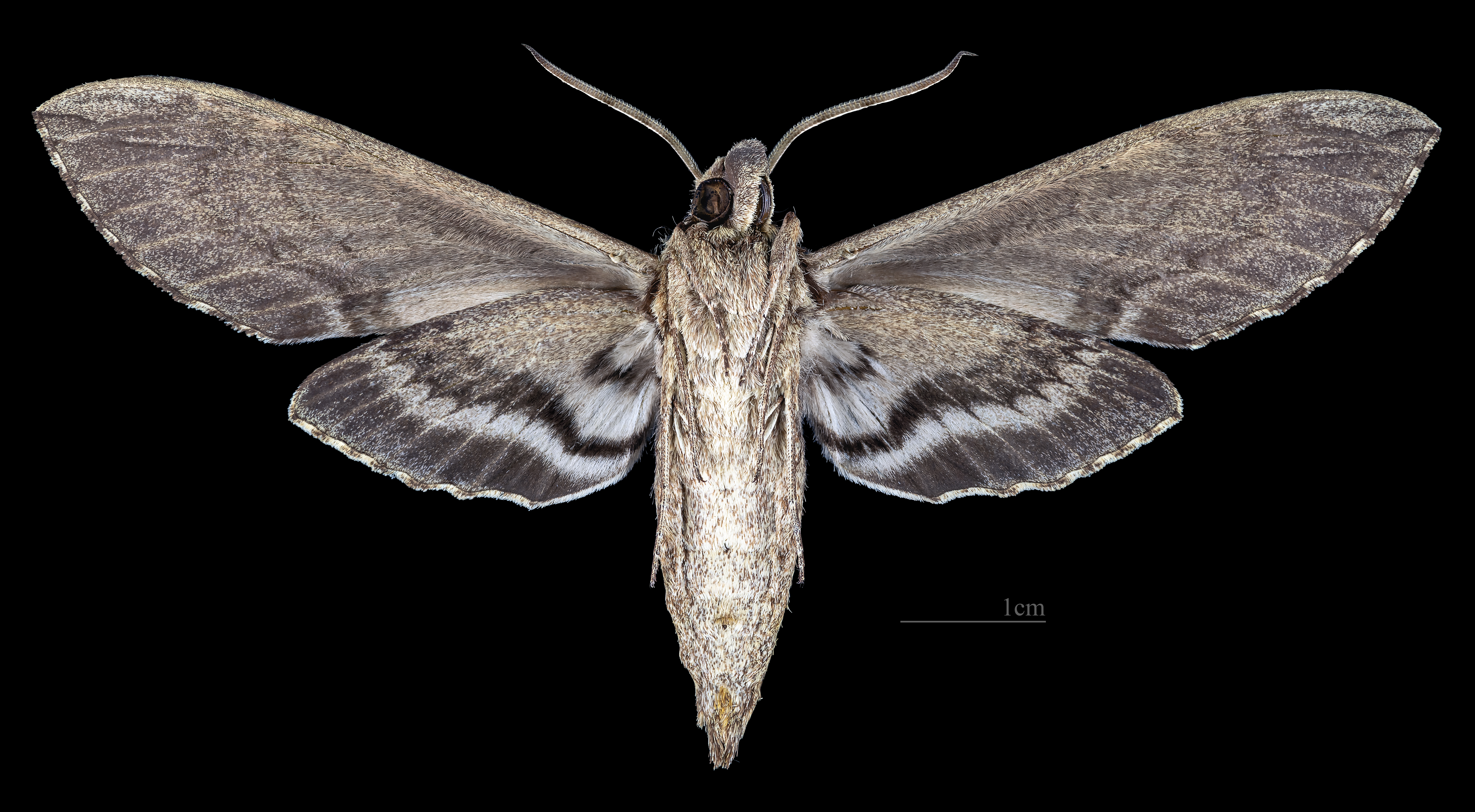 Lintneria merops - △ Ventral side Collection of the Mathematician Laurent Schwartz